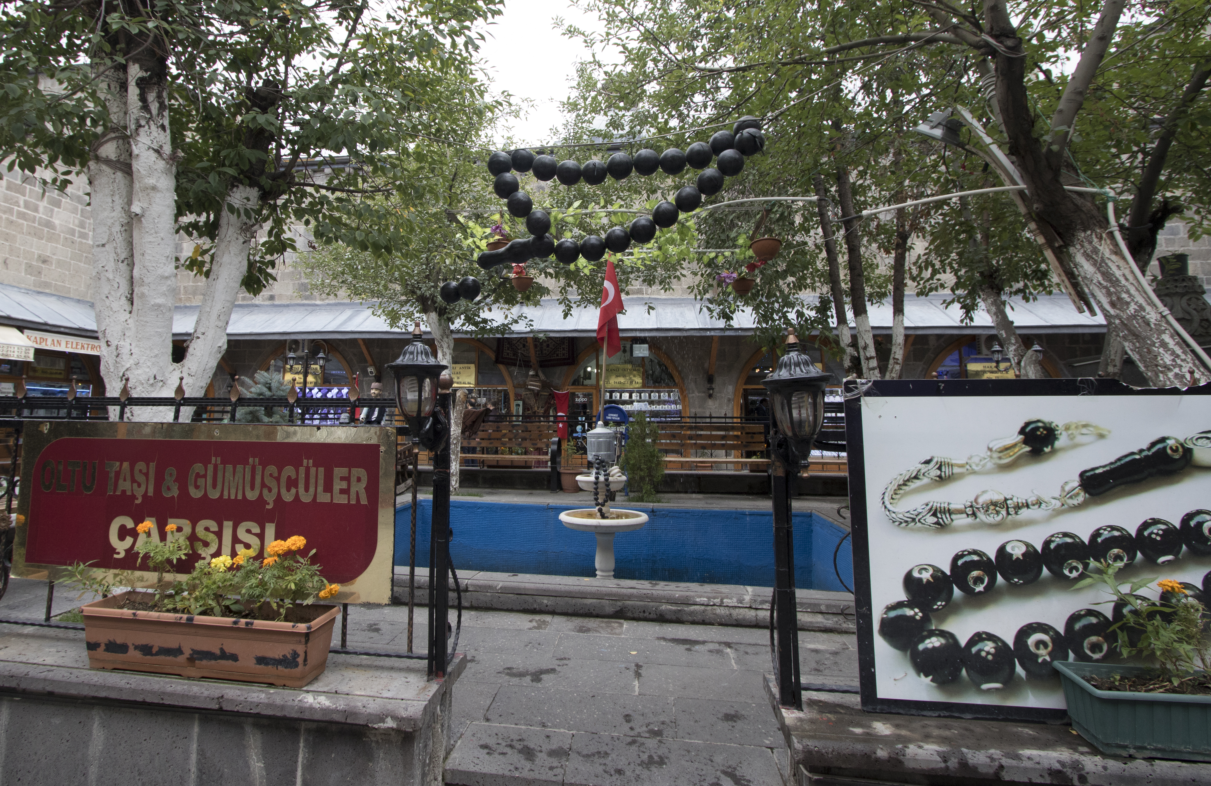 A view from the inner court of Rüstem Paşa Caravanserai (aka Taşhan). Erzurum, Turkey.